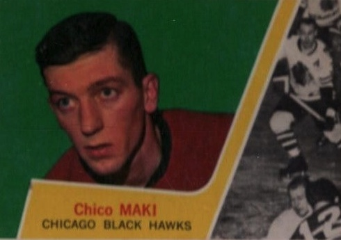 Chico Maki